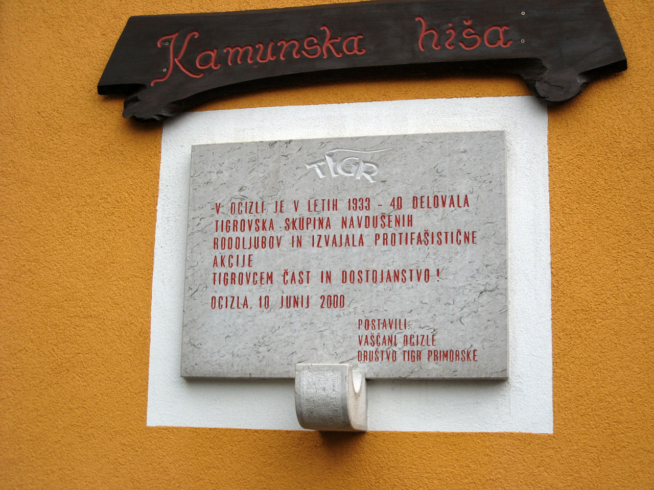 Tigr sign in Ocizla